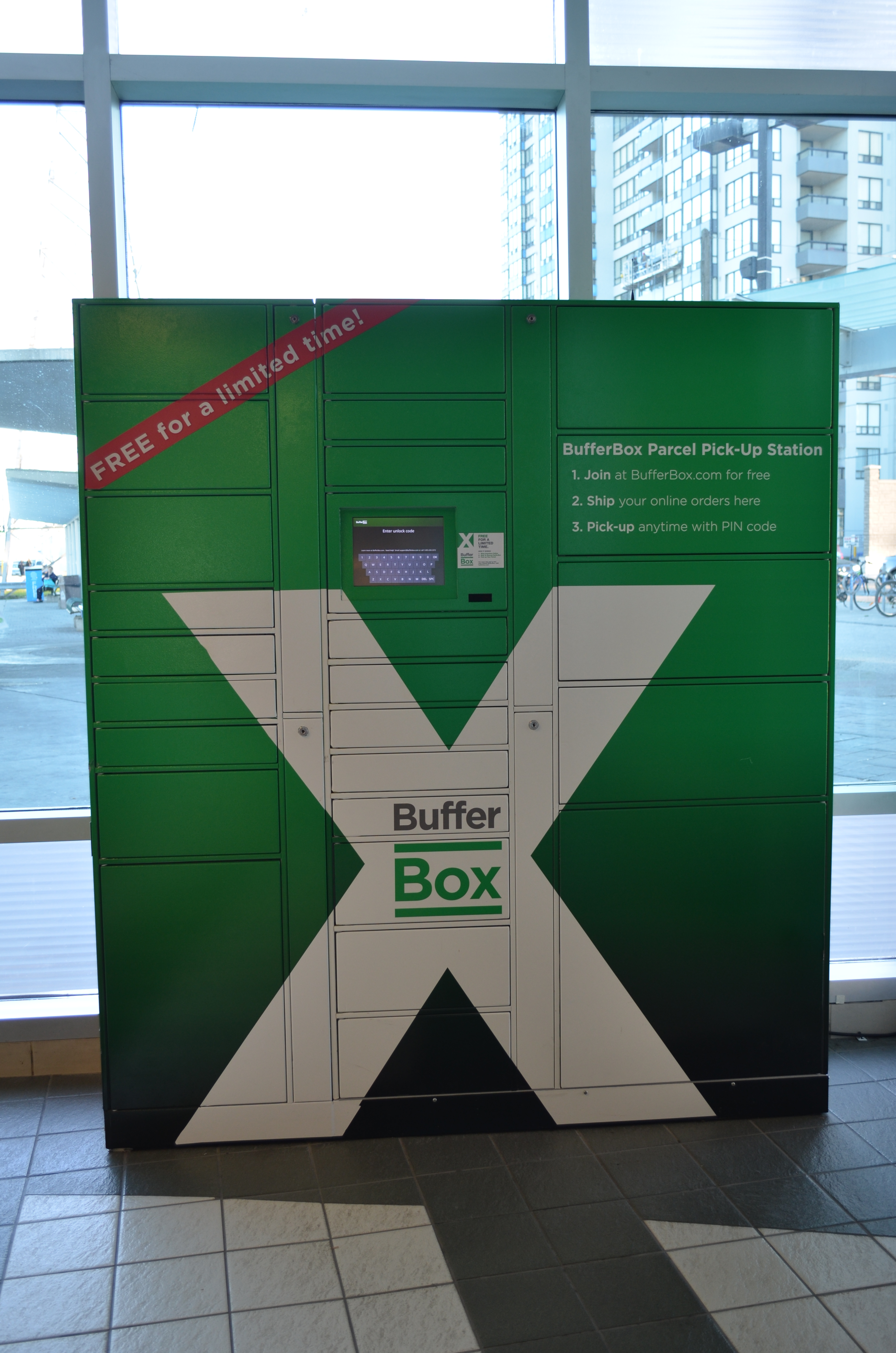 BufferBox